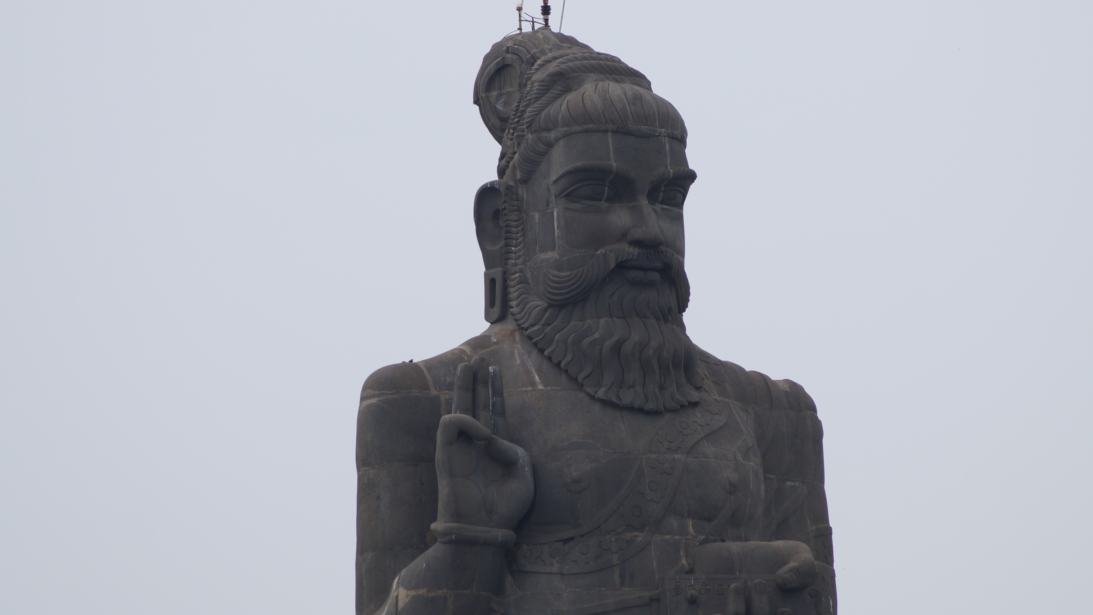 The Thiruvalluvar Statue is a 133 feet (40.6 m) tall stone sculpture of the Tamil poet and philosopher Tiruvalluvar, author of the Thirukkural. It is located atop a small island near Kanyakumari, in Tamil Nadu on the southernmost Coromandel Coast, where two seas and an ocean meet; the Bay of Bengal, the Arabian Sea, and the Indian Ocean.